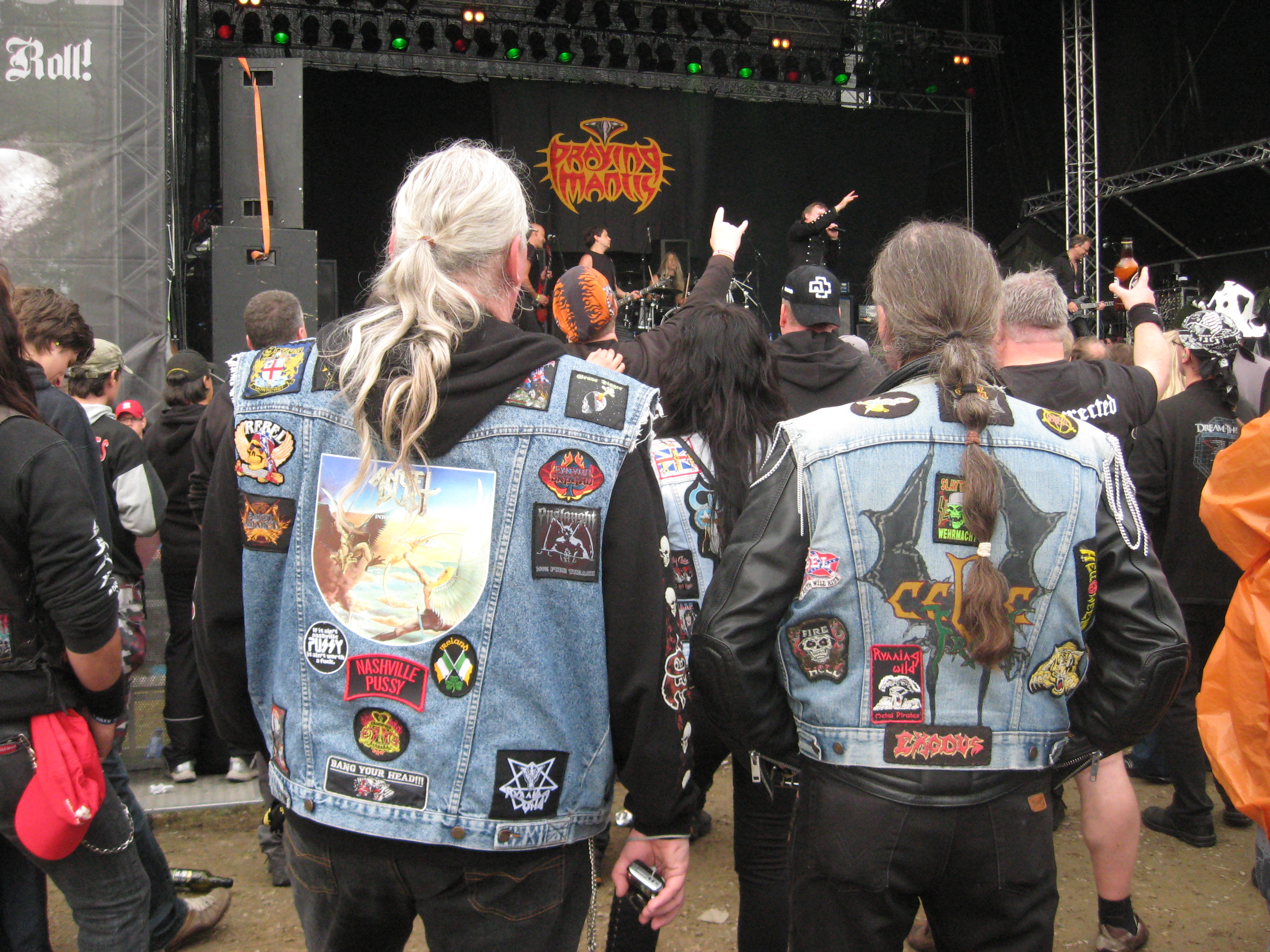 Two kutte wearing metalheads at Praying Mantis.